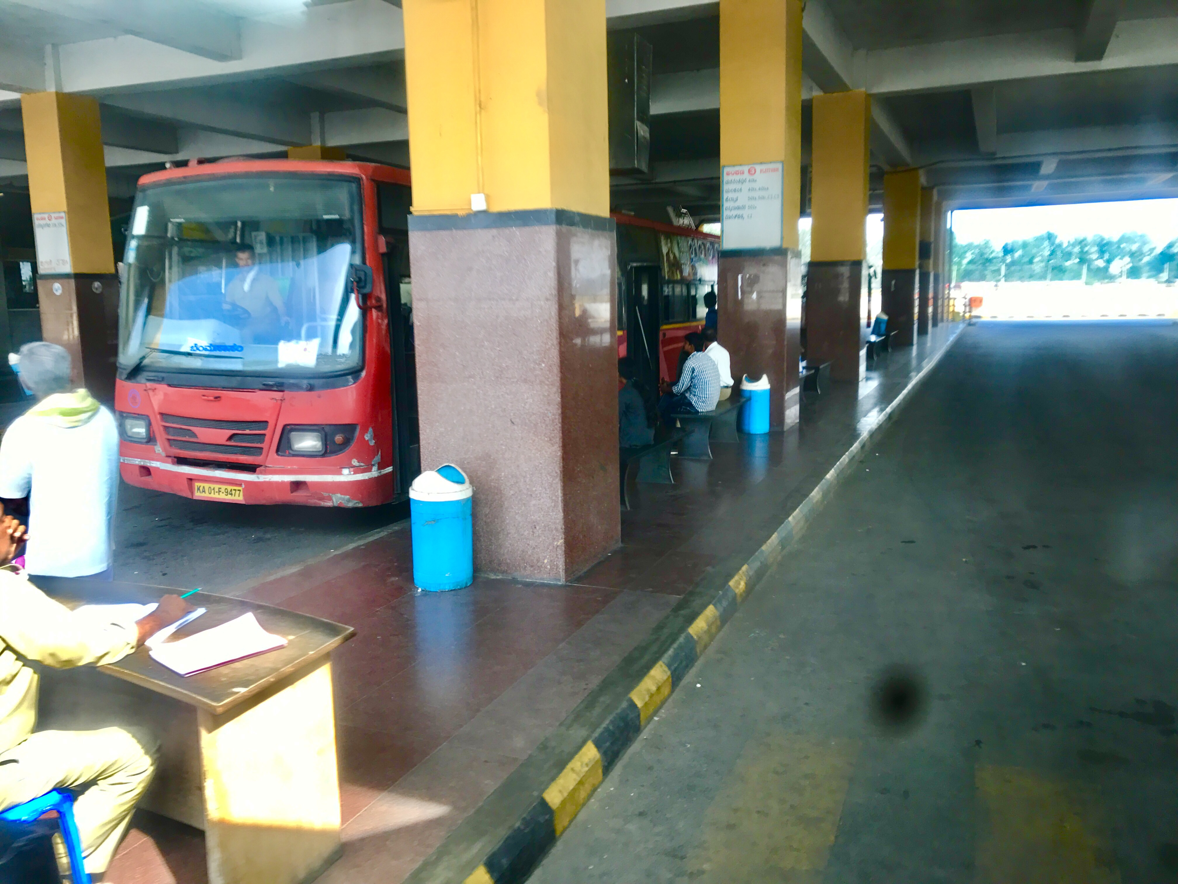 BMTC Bus Stop on Mysuru Road